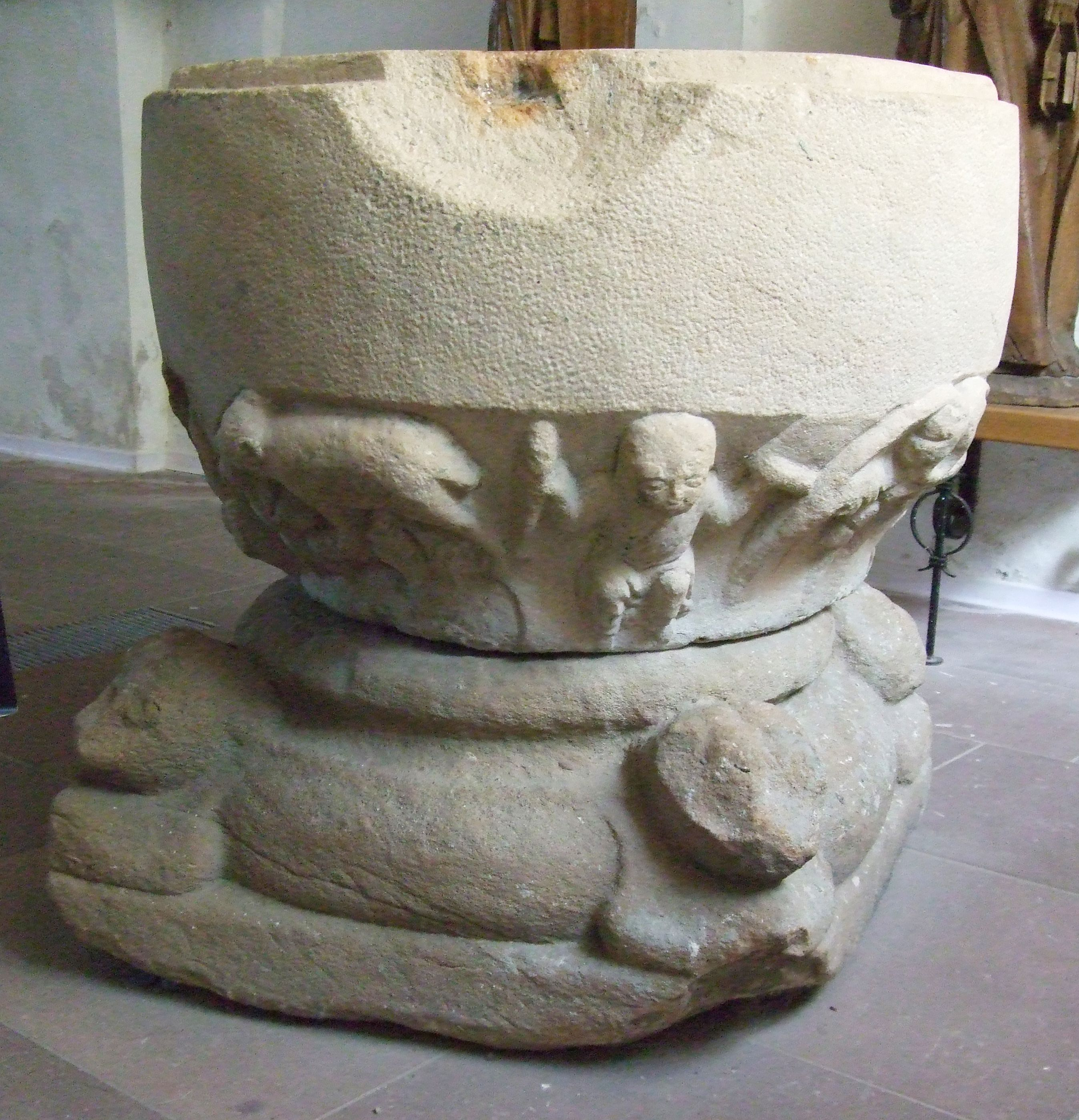 baptismal font in the church St. Bartholomaeus in Wesselburen, Schleswig-Holstein, Germany